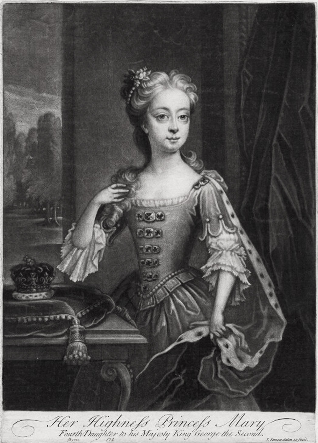 Portrait of Princess Mary of Great Britain (1723-1772)